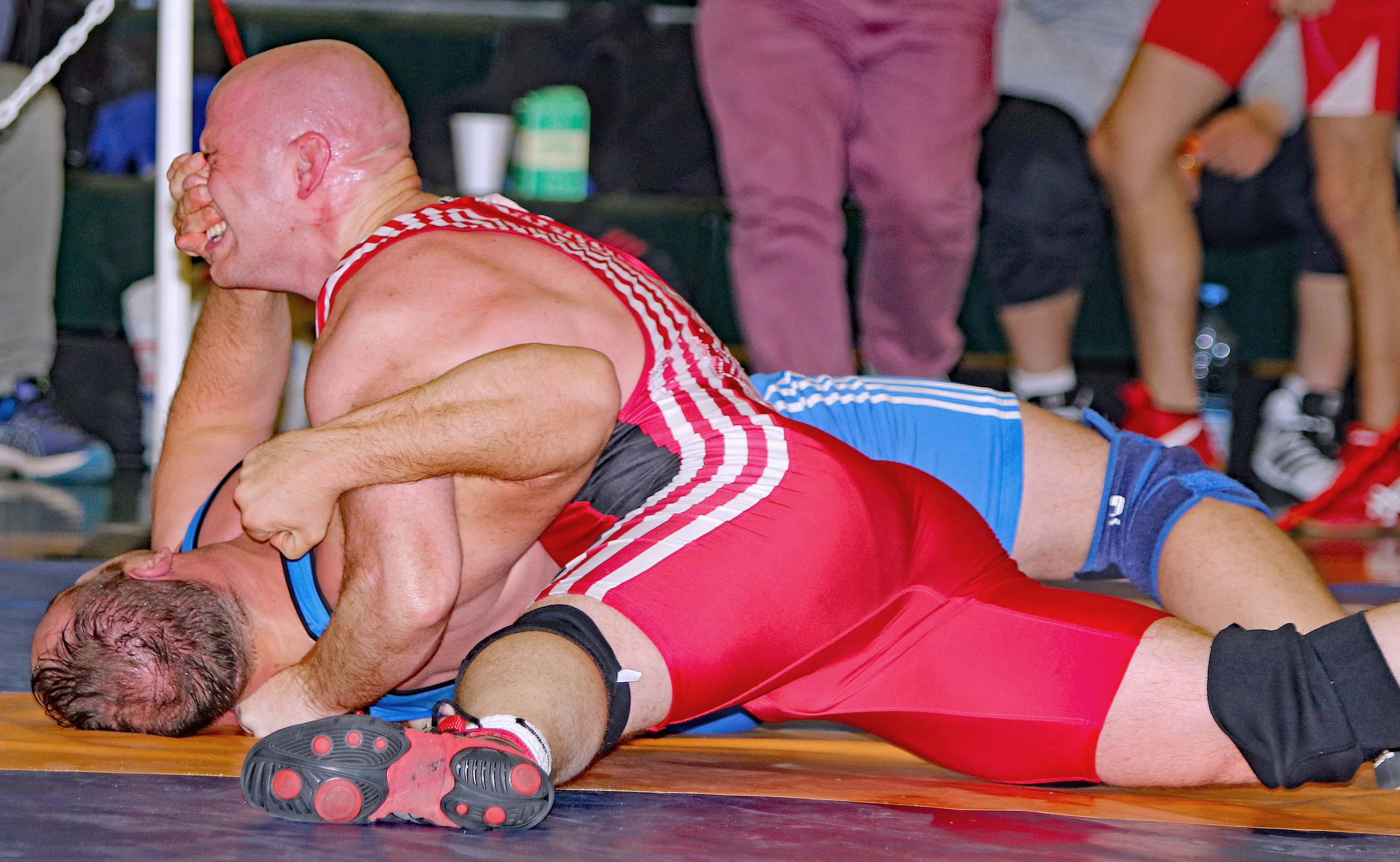 Wrestlers